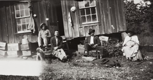 Rosario Cooper, last speaker of the Obispeño Chumash language, seated at viewer's right outside her home near Arroyo Grande during her linguistic work with John P. Harrington : 1916 ; left to right: Mauro Soto, Rosario's husband, J. P. Harrington, Frank Olivas Jr. (Rosario's grandson), and Rosario Cooper